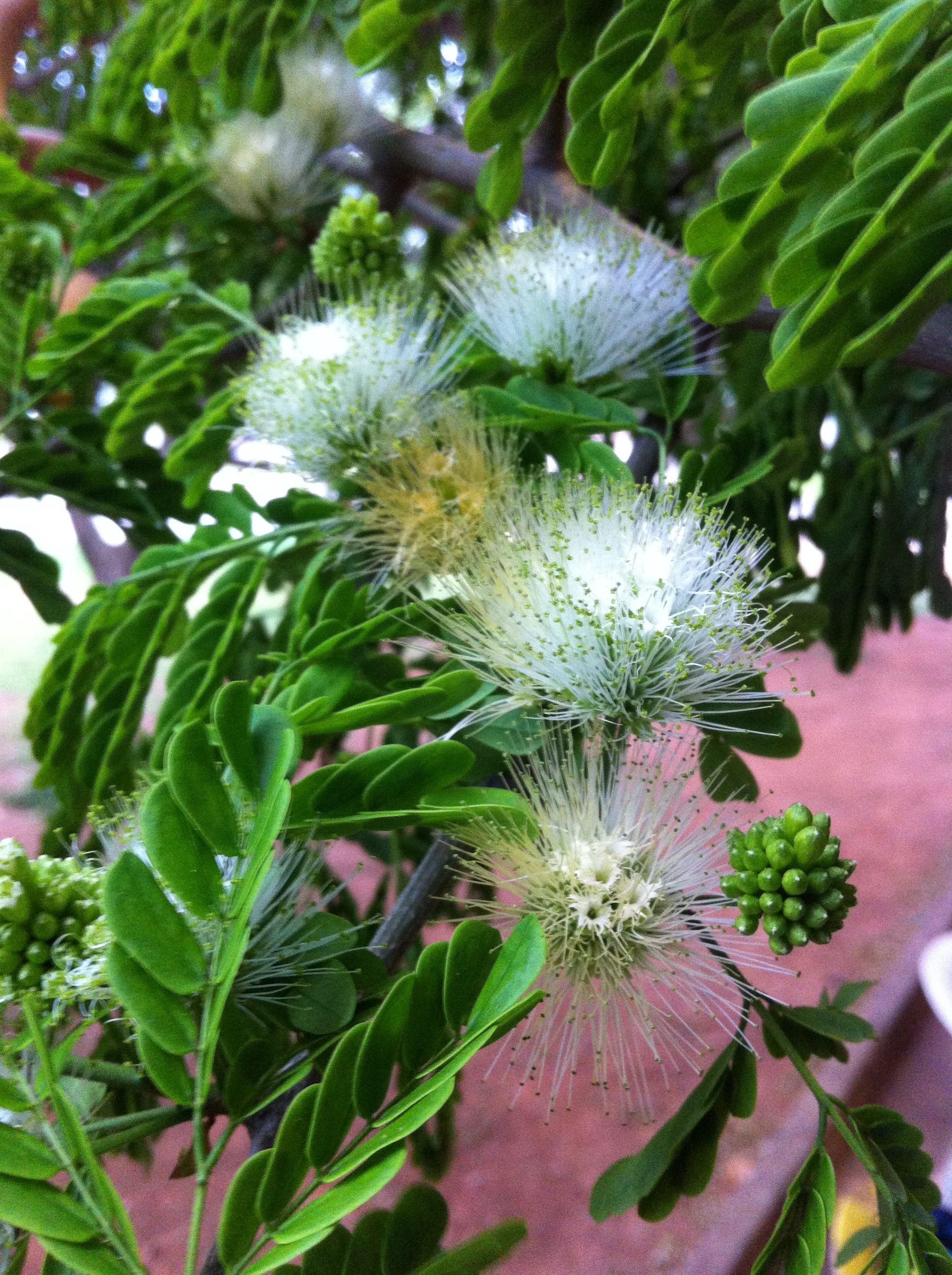 Chloroleucon tortum flower. Image collected at Ibirapuera Park, São Paulo (-23.587278, -46.656260), mid September, 2014.